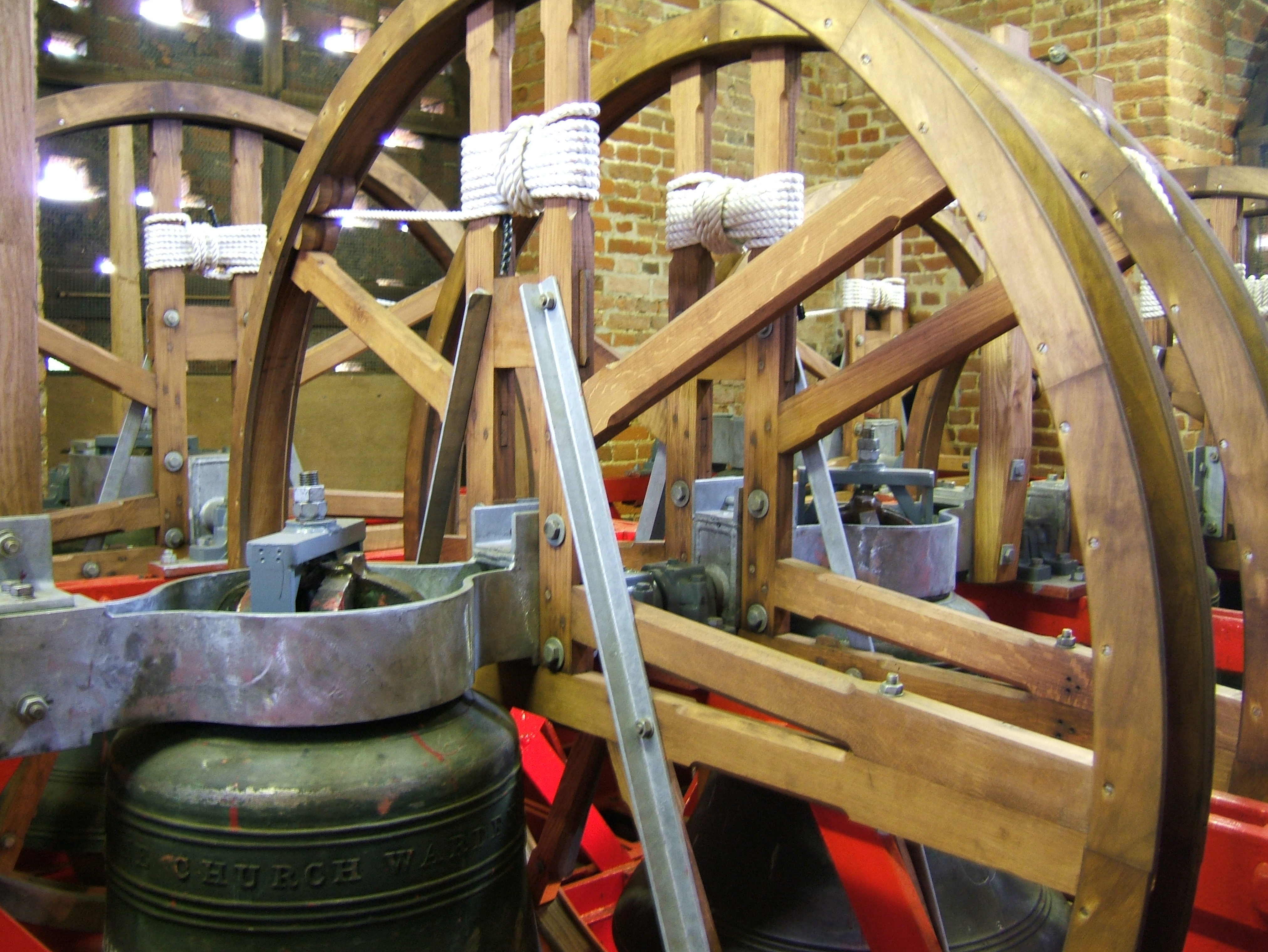 Some of the six restored bells in the early 18th-century west tower of St James' parish church, Finchampstead, Berkshire. John Warner and Sons of Cripplegate, London, cast all but the treble bell in 1792.